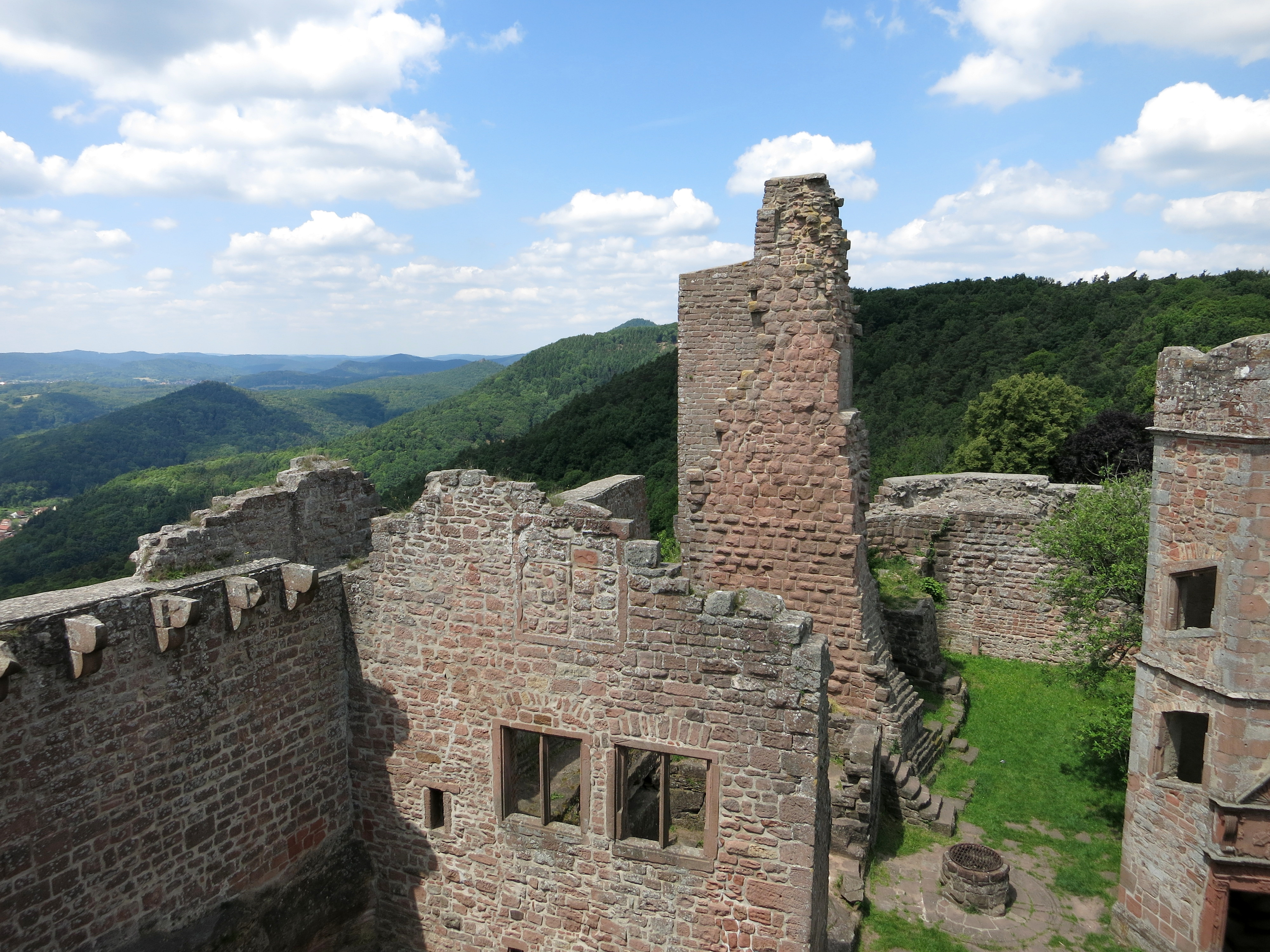 On castle Madenburg, Pfalz